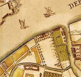 Map of Saint Petersburg (Russia)